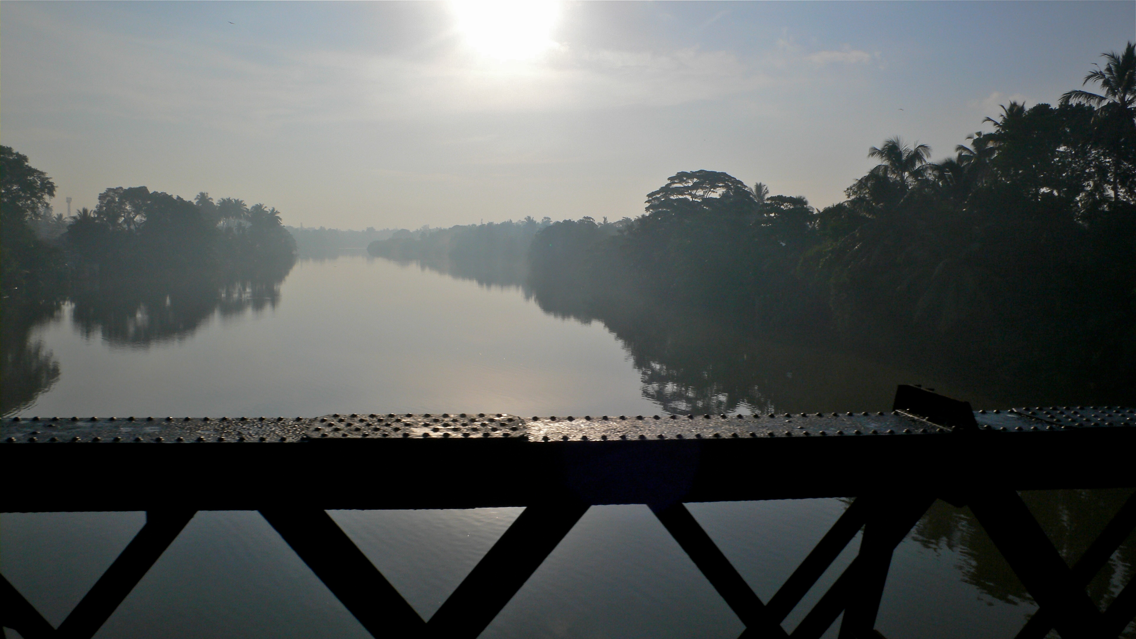 Morning departure to Kandy.